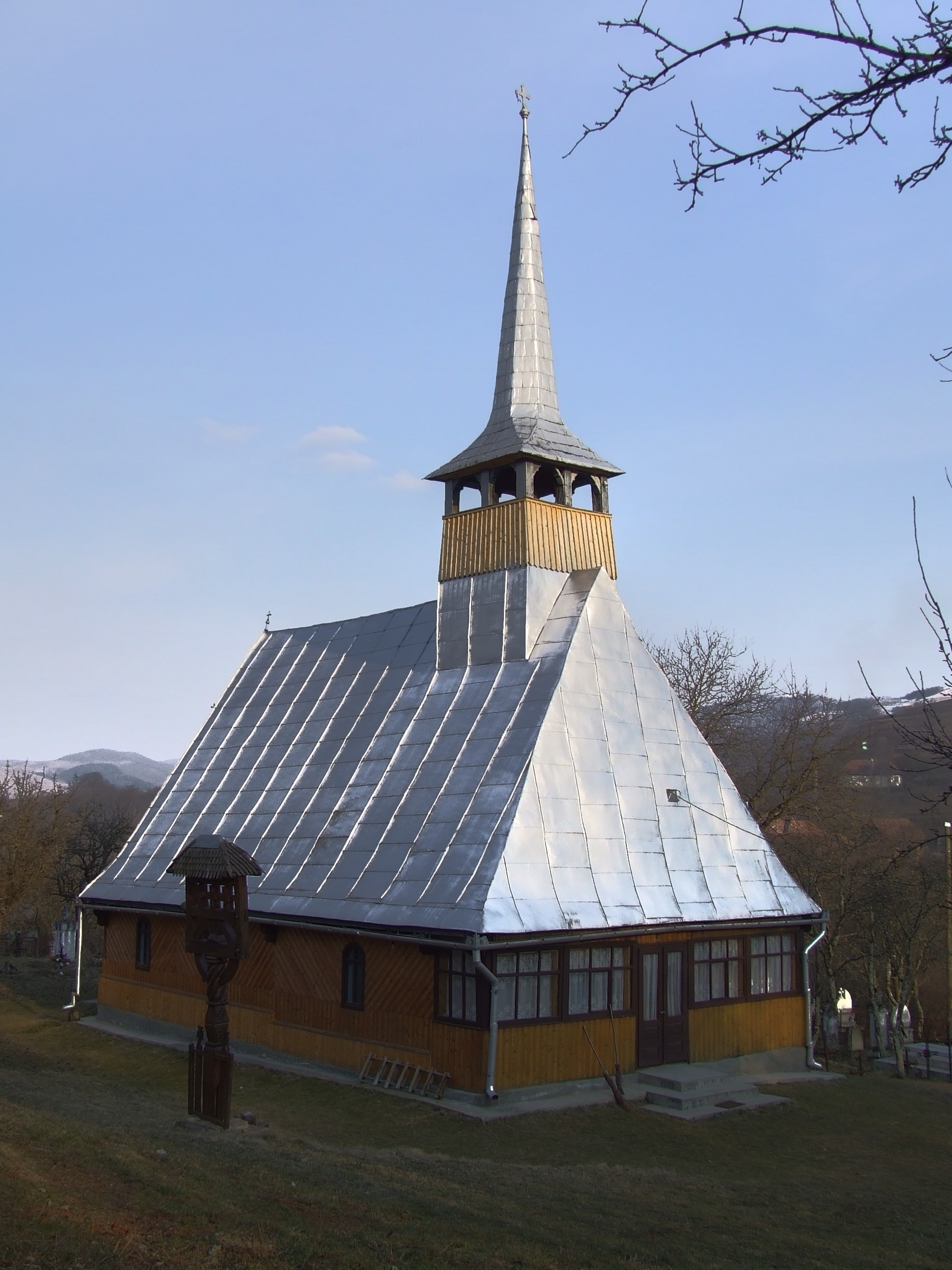 the wooden orthodox church in Cacova Ierii village, Romania. Former built in Ocoliș, Alba County